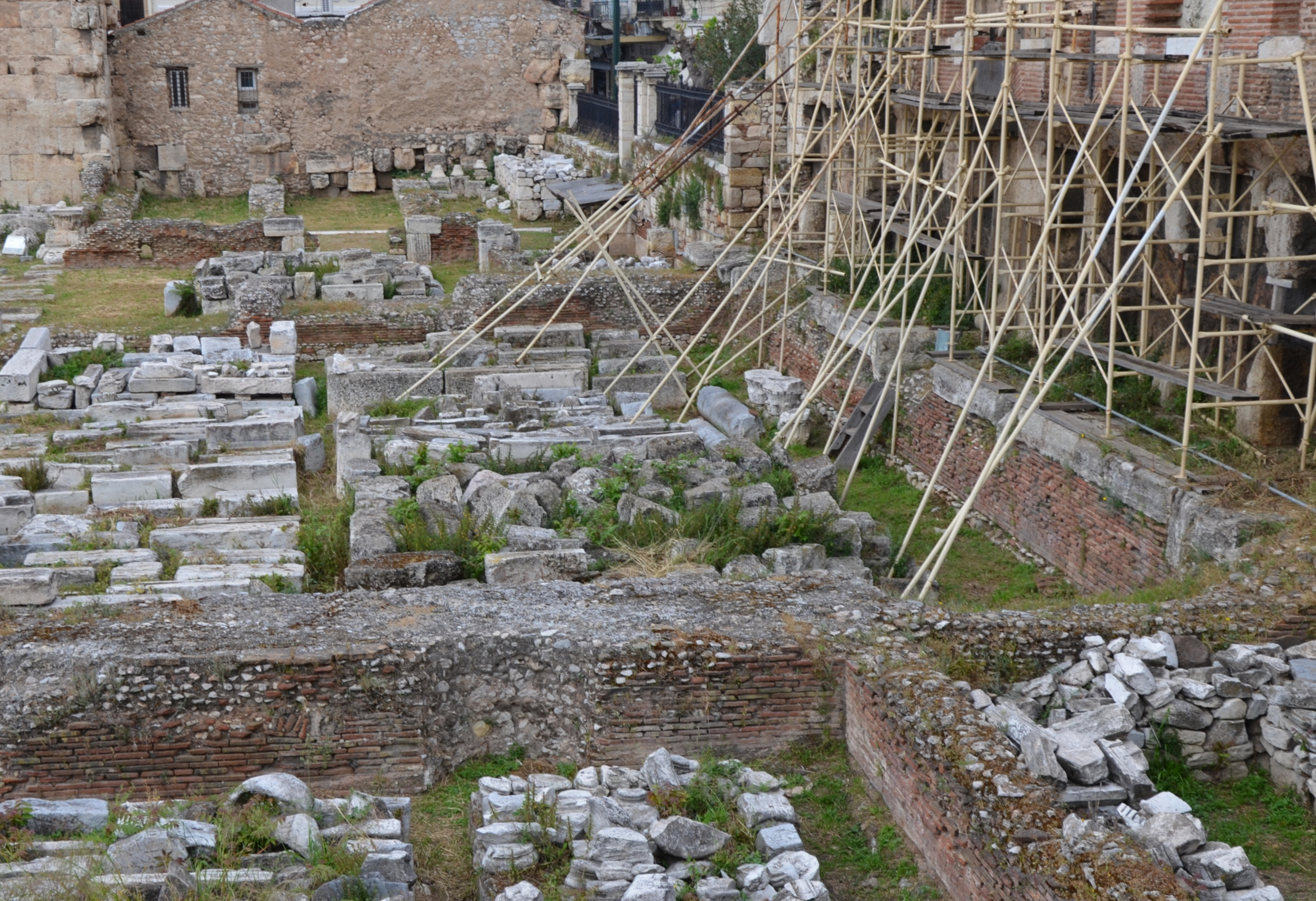 The Library of Hadrian, the eastern end of the peristyle court with the remains of several rooms, the room (with the scaffolding) would have been the “library” proper, where ancient scrolls were stored, Athens